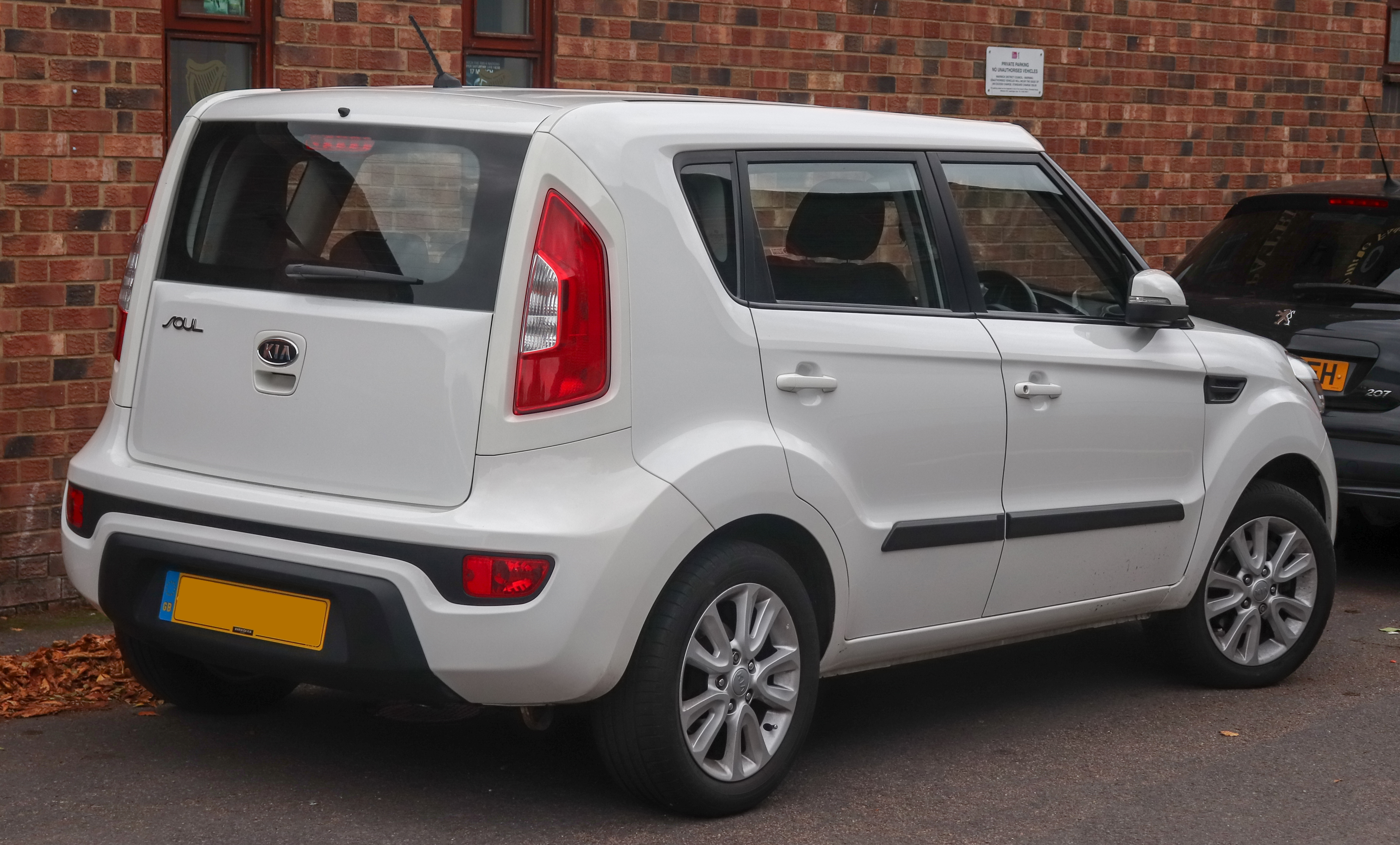 2012 Kia Soul 2 1.6 Rear Taken in Leamington Spa